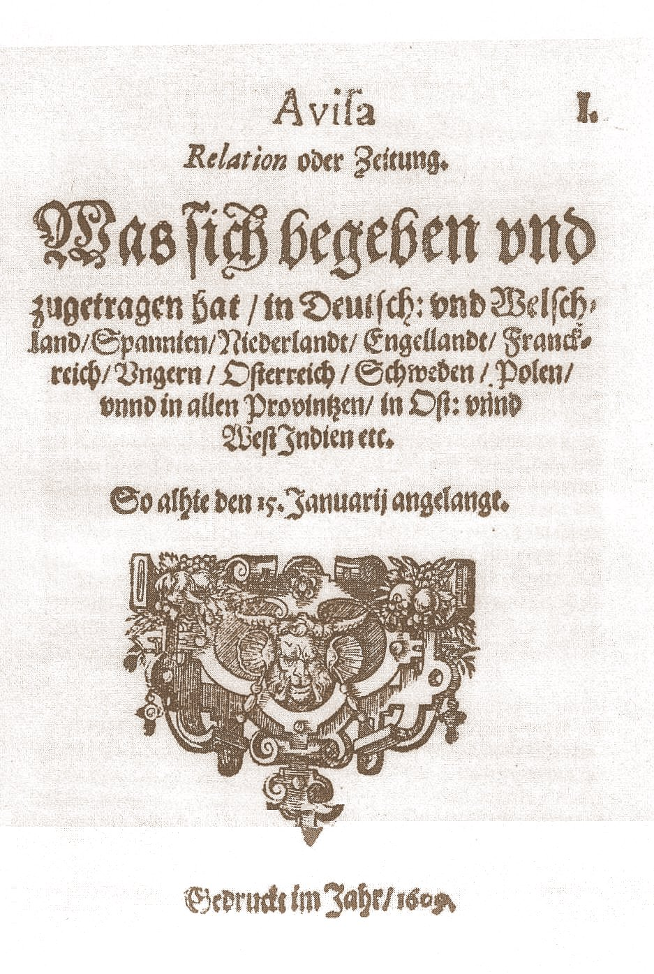 First issue of the German “Avisa Relation oder Zeitung”, dated 15 January 1609, the second oldest newspaper of the world.